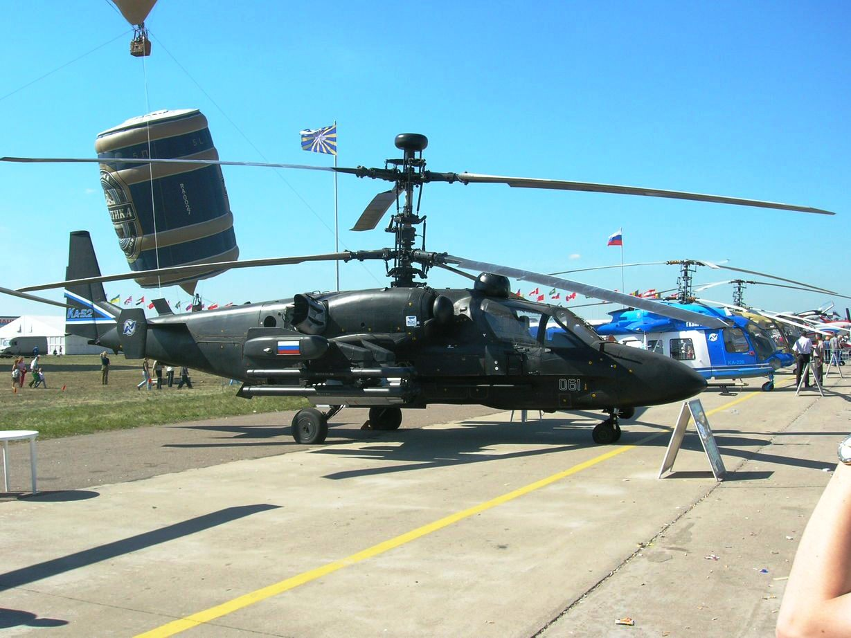 A Kamov-helicopter on the MAKS-2005 Airshow in Zhukovsky.